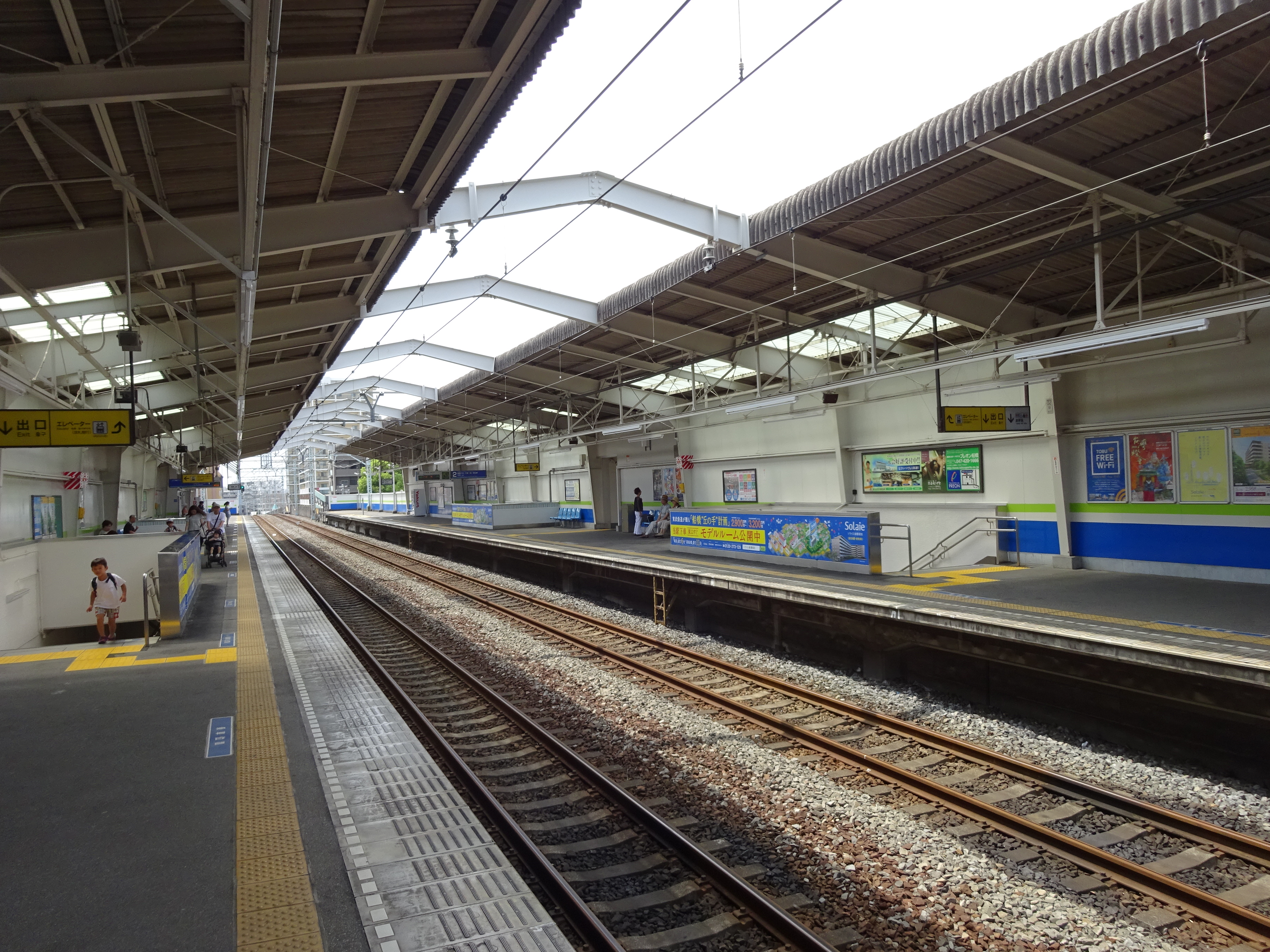 Platforms of Shin-Funabashi Station